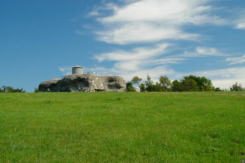 N-D-S 72 Můstek, fortress Dobrošov.